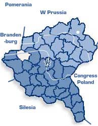 I made it.